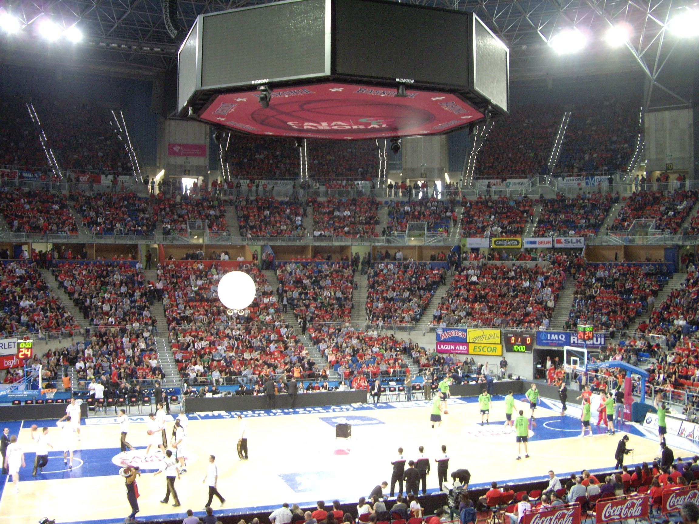 View of the Buesa Arena in the game of Liga ACB between Caja Laboral and Real Madrid.